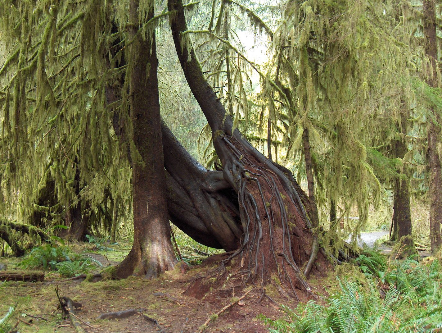 Trees (Tsuga heterophylla) and roots in Hoh Rain Forest